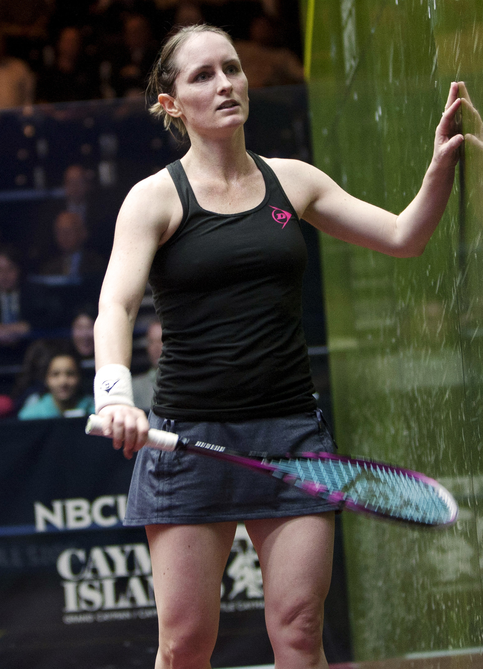 J.P. Morgan Tournament of Champions Squash 2012, from Grand Central Terminal, New York, NY on January 25. Natalie Grinham (Netherlands) defeated Nour El Sherbini (Egypt) in the women's semifinals.